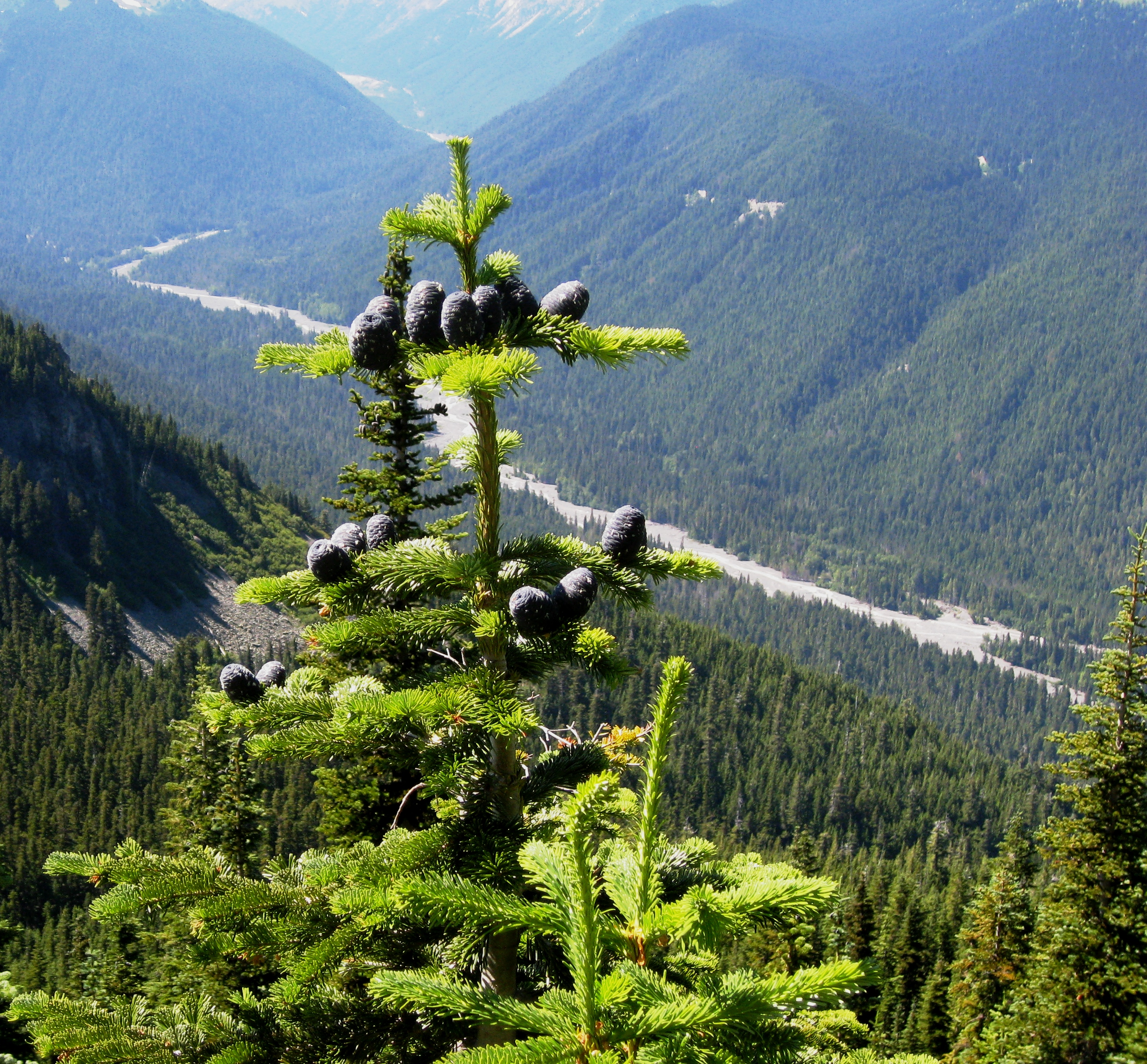 Pacific Silver Fir Abies amabilis with immature cones, Crystal Peak Trail, Mount Rainier National Park, Washington, USA. Down far below is the White River which flows about 121 km (75 miles) from its source, the Emmons Glacier on Mount Rainier, to join the Puyallup River at Sumner.